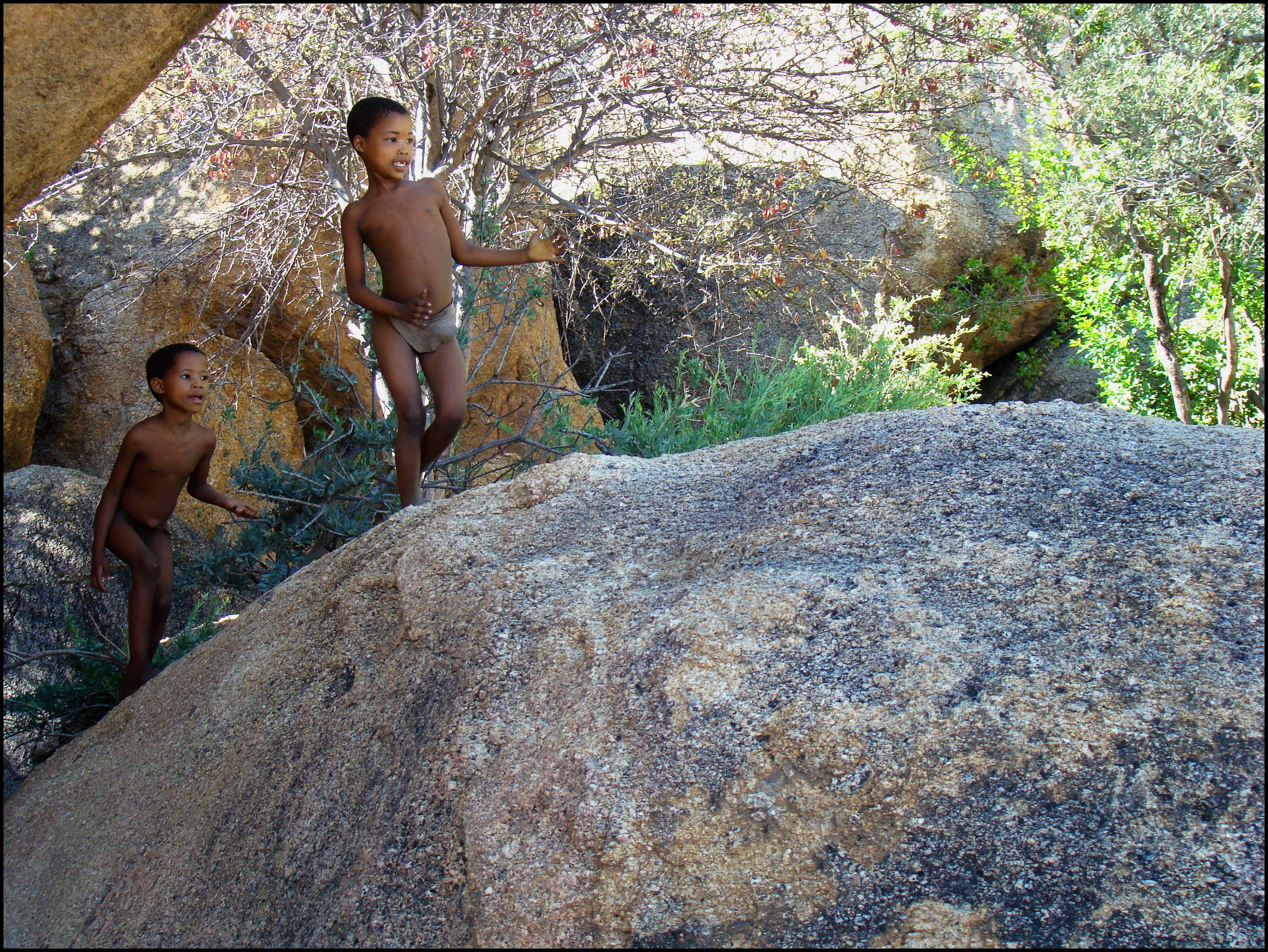 Bush children. March 2012.